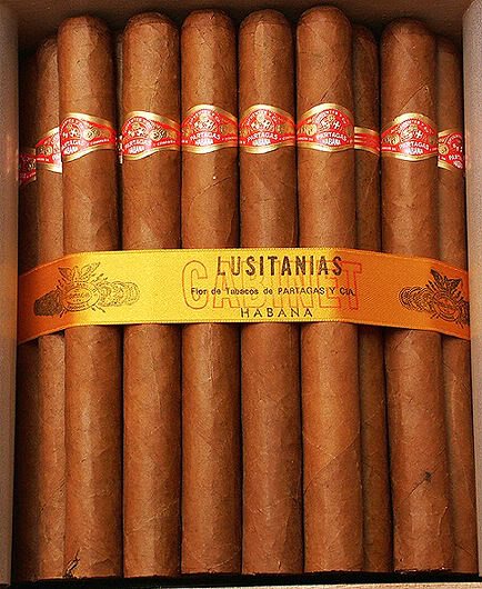 Cabinet of Partagas Lusitanias